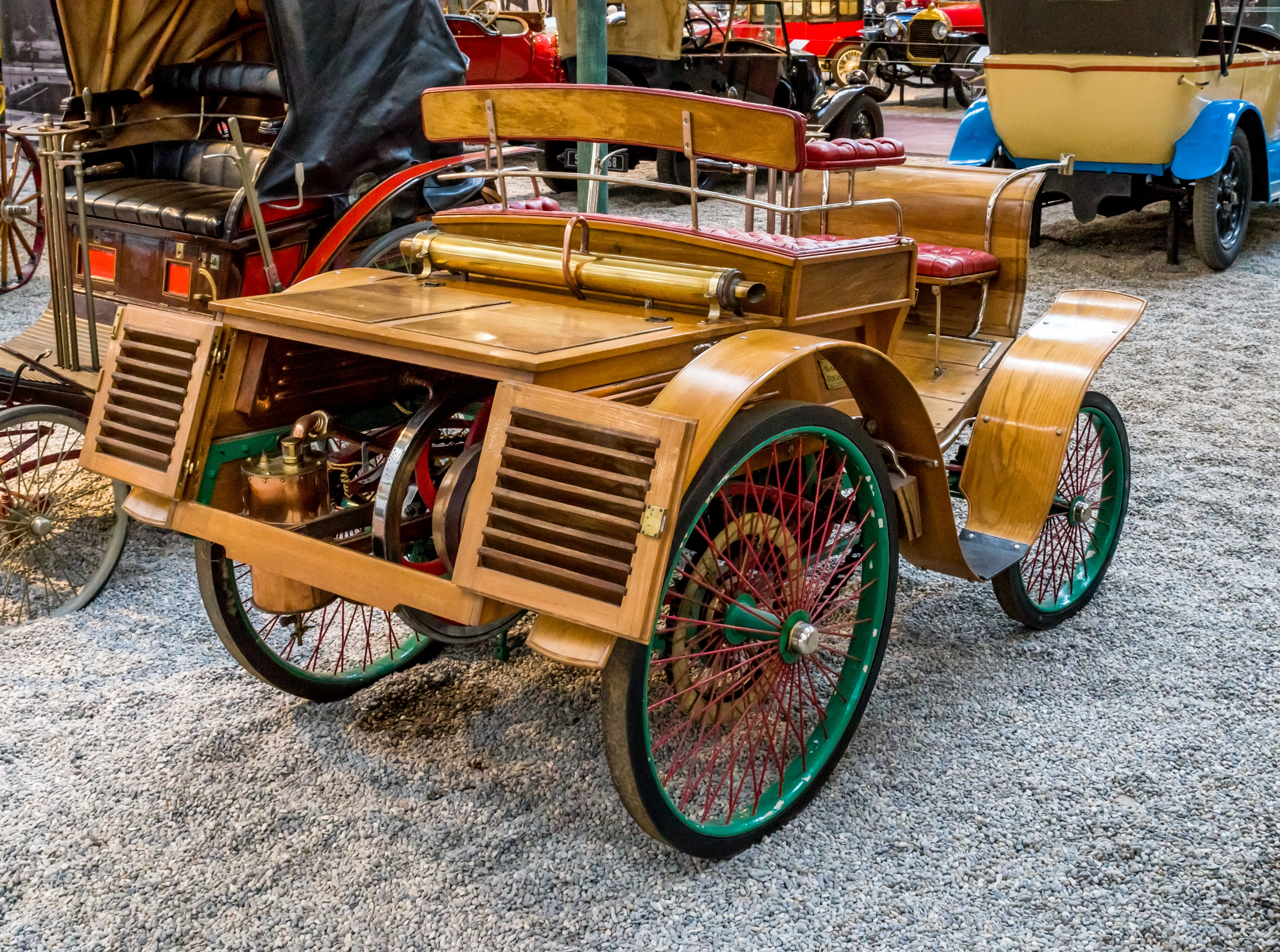 pictures from the Cité de l’Automobile – Musée National – Collection Schlump in Mulhouse, France ptictures from the 10. may 2018